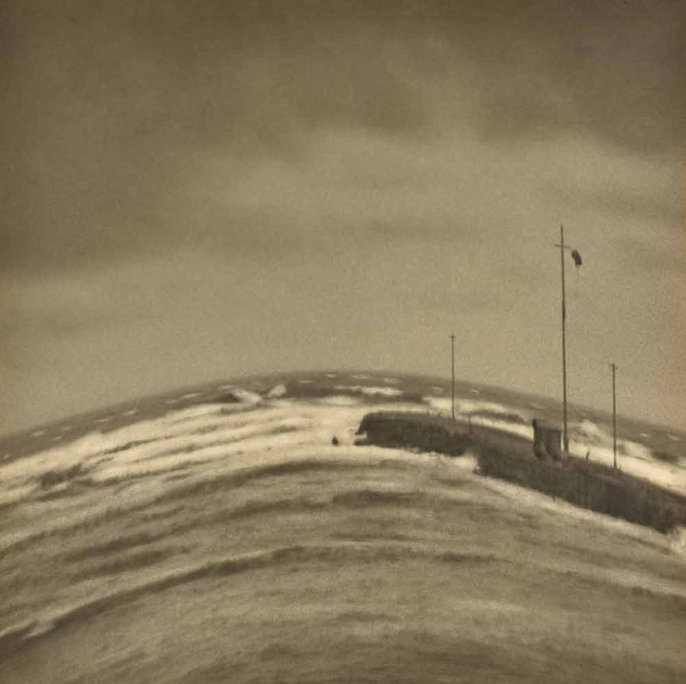 Photograph of Kiku harbour taken in 1931 by Teikō Shiotani (鹽谷定好, 1899–1988) from the window of his house in Akasaki, in what is now Kotoura, Tottori Prefecture, Japan, looking toward a breakwater and windsock. Shiotani emphasized the curvature of the horizon by bending the paper under the enlarger. Original title: 天氣豫報のある風景 (Tenki yohō no aru fūkei); a title that -- in modern orthography, 天気予報のある風景 -- has since been used consistently for this (and at least one other, very similar photograph by Shiotani). In English, it has been titled "Landscape with forecasted weather" and "Landscape with weather report". Published in The Photo-Times (フォトタイムス, a long-defunct Japanese photography magazine), January 1932 issue, page 27.